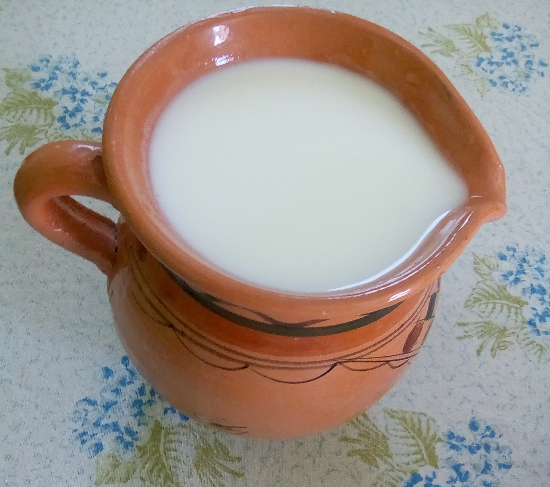 Leben (milk product).